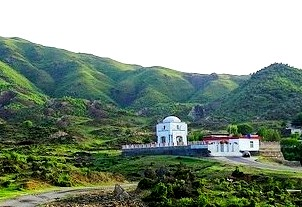 Mazar